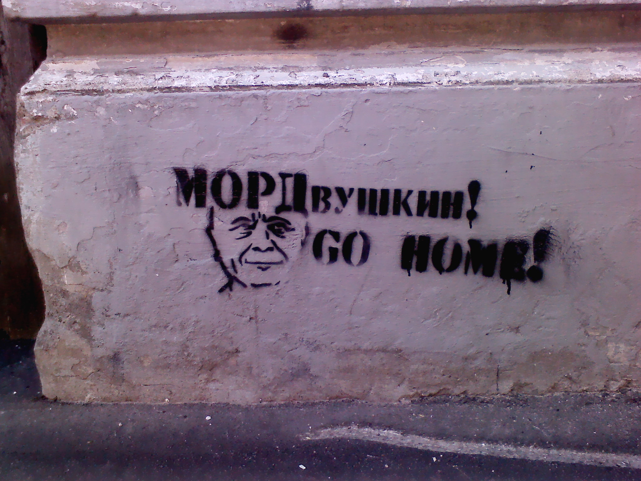 Graffiti in Samara with the likeness of the Governor Nikolay Merkushkin. These stencil graffiti were quite widespread during summer and autumn of 2015, especially in the historical city centre. This photo was taken on September 17, 2015 in Chapayev street, Lenin district.